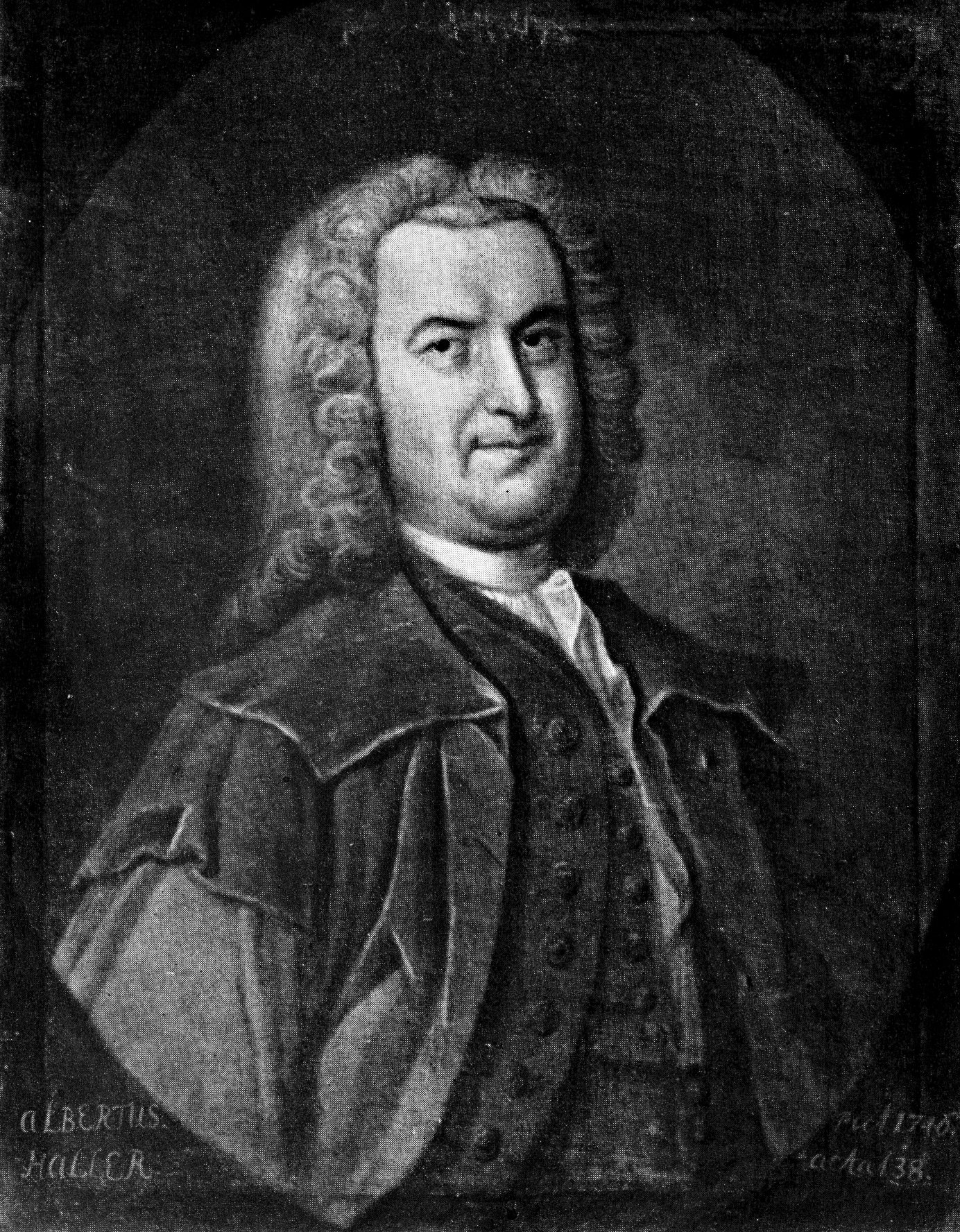 Albrecht von Haller (1708-1777); 1746; 81:63 cm